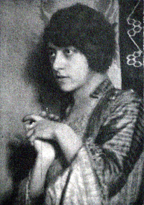 Abels d Albert Erika NEU Wiener Illistrierte Zeitung 8 Feb 1920